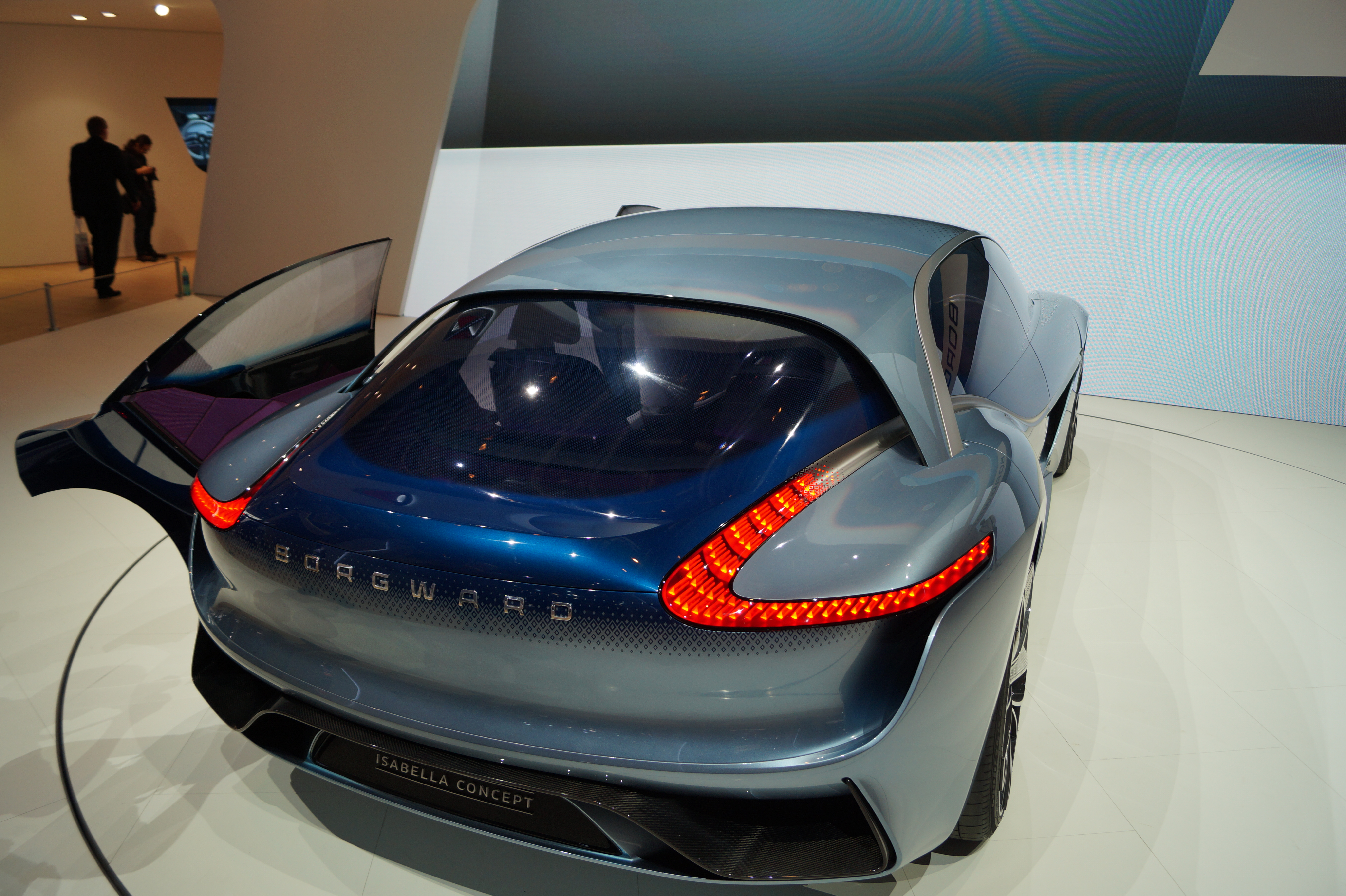 Borgward Isabella at IAA 2017